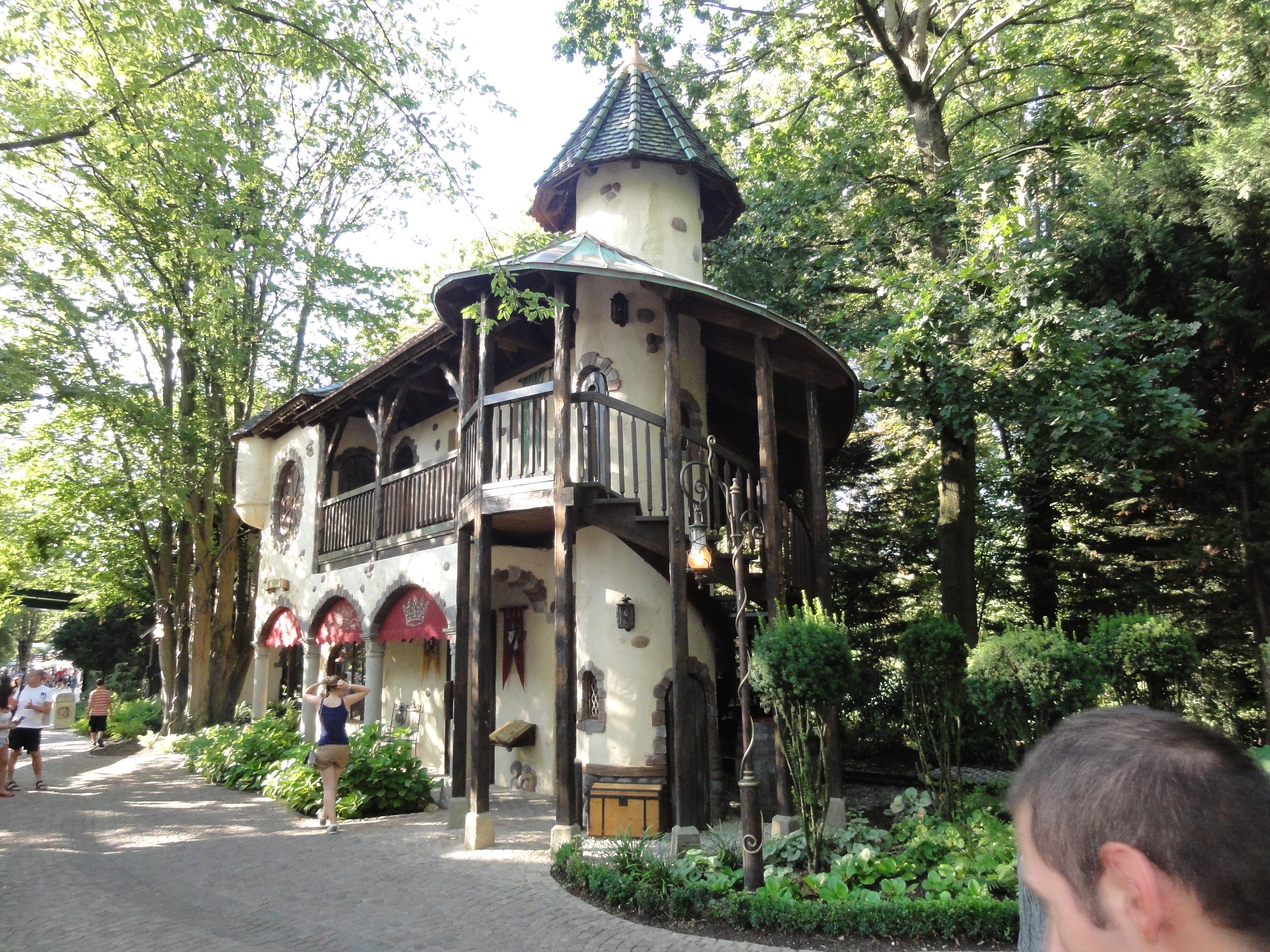 Enchanted forest, Europa-Park, Rust, Baden-Württemberg, Germany.